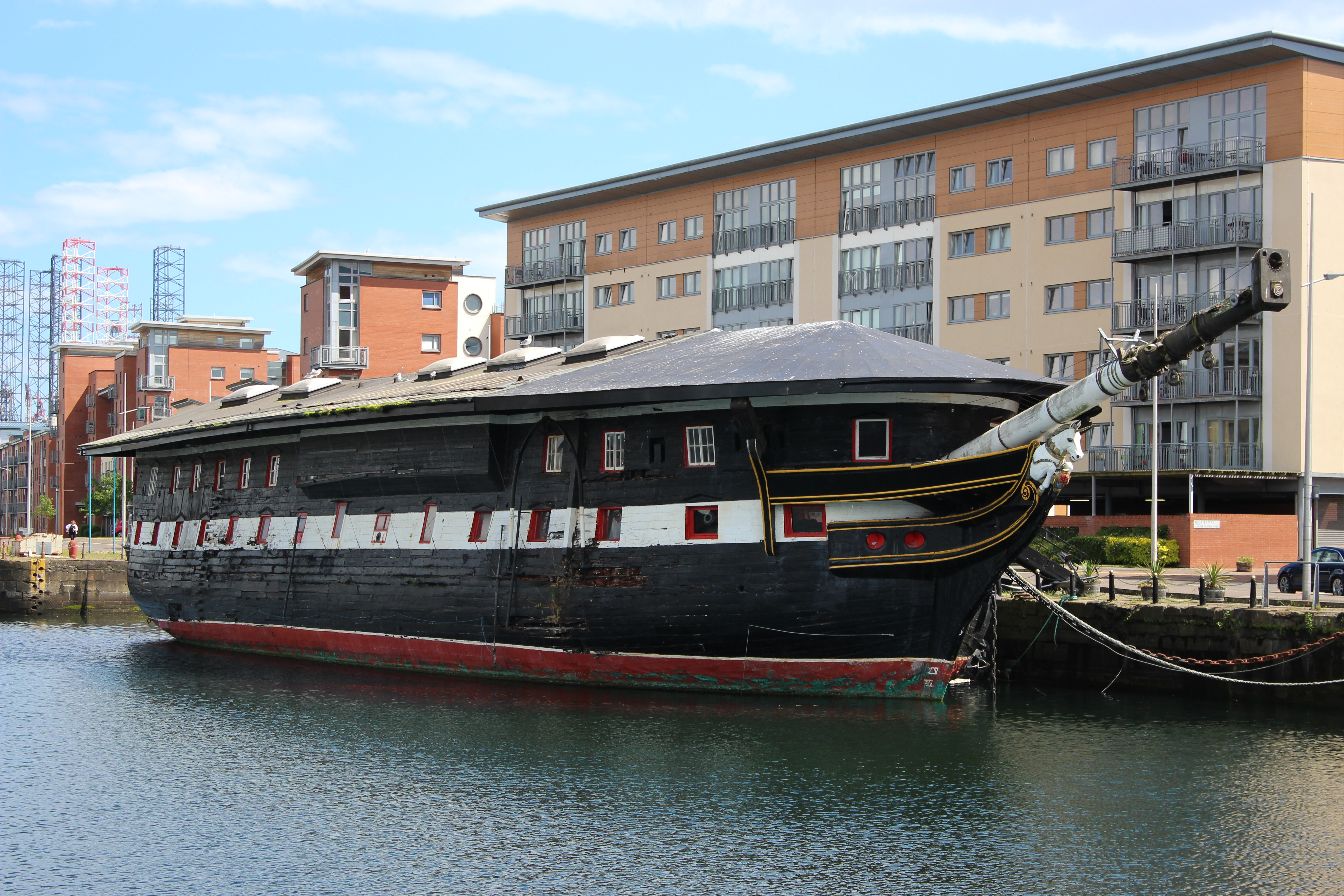 Dundee Harbour, Victoria Dock Wikidata has entry Q17575387 with data related to this item.